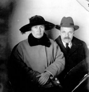 Hayyim Nahman and his wife Manya (Auerbach) Bialik